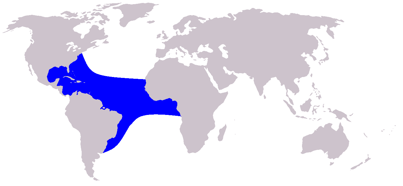 User:Pcb21 after User:Vardion. See Wikipedia:WikiProject Cetaceans for further details